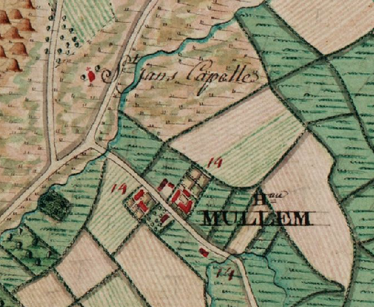 St. John's Chapel in Mulheim (Belgium) as shown on the Ferraris maps (1777)